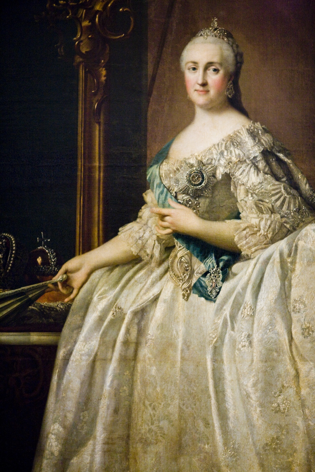 Екатерина II, Императрица и Самодержица Всероссийская